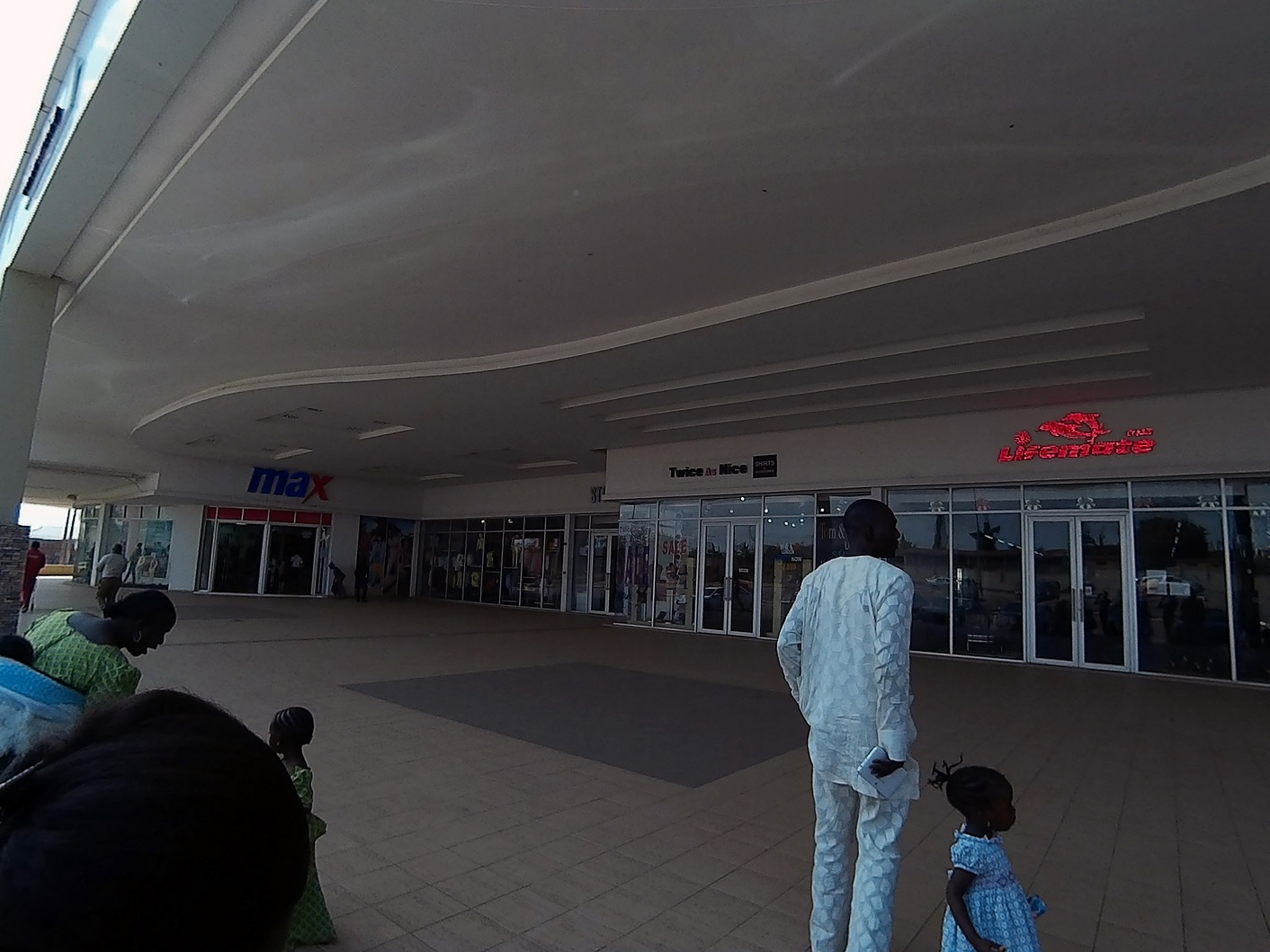 CAMERA This is an image of Cultural Fashion or Adornment from Nigeria